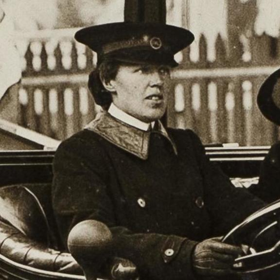 Vera Jack Holme as chauffeur 7VJH/5/2/03